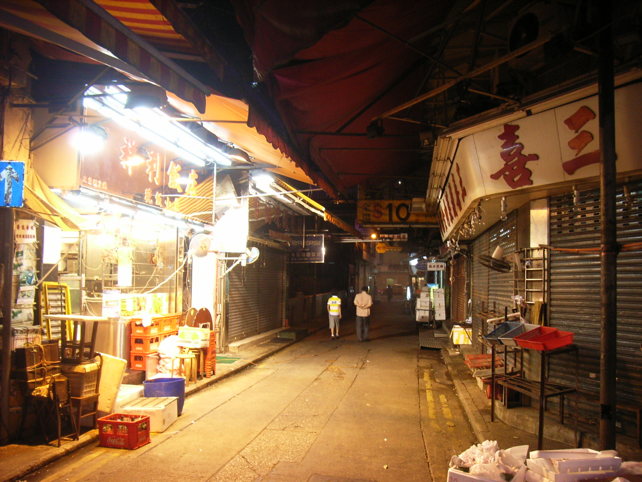 Self-created by Bera O6 Muda